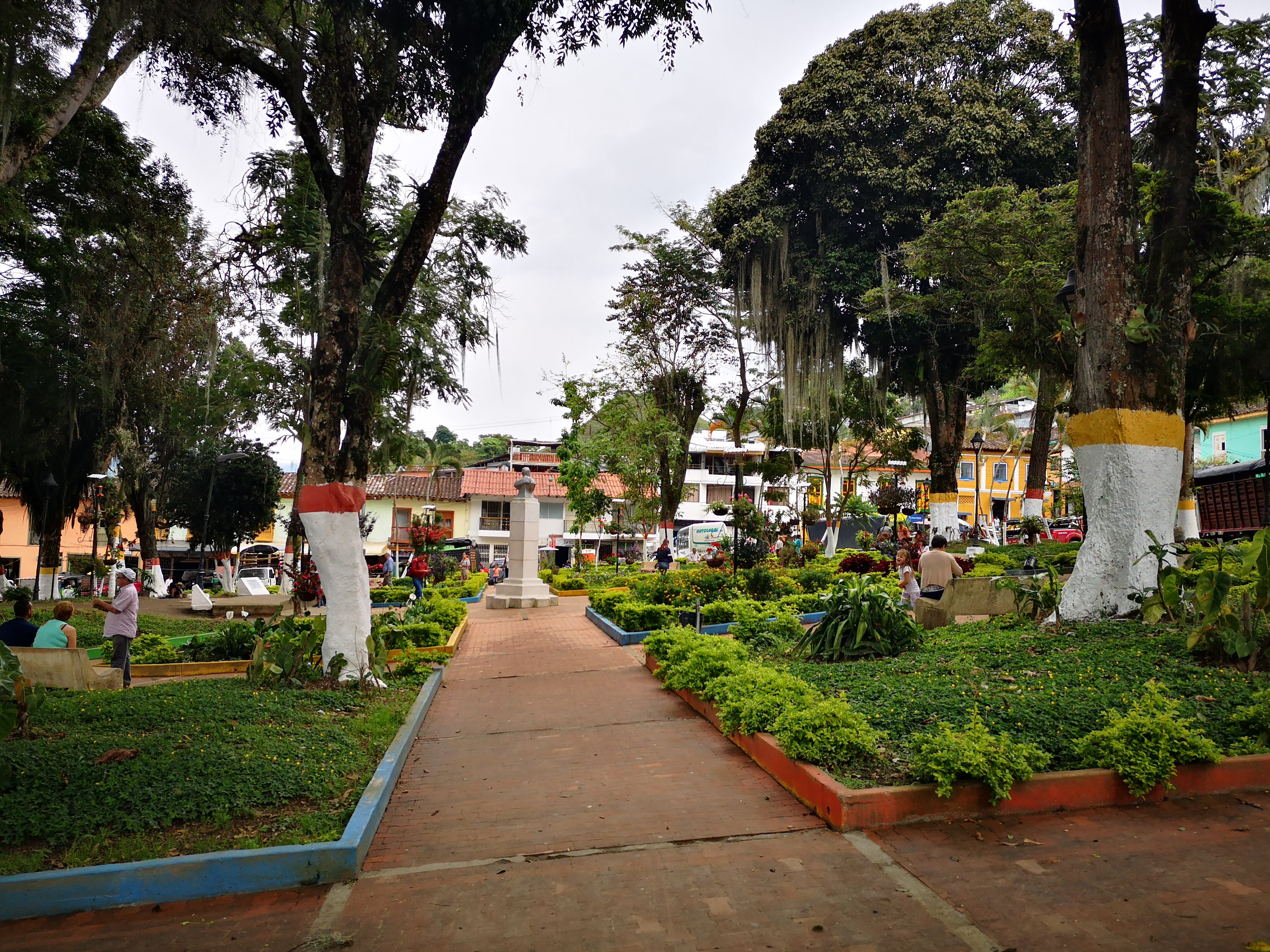 Filadelfia, Caldas